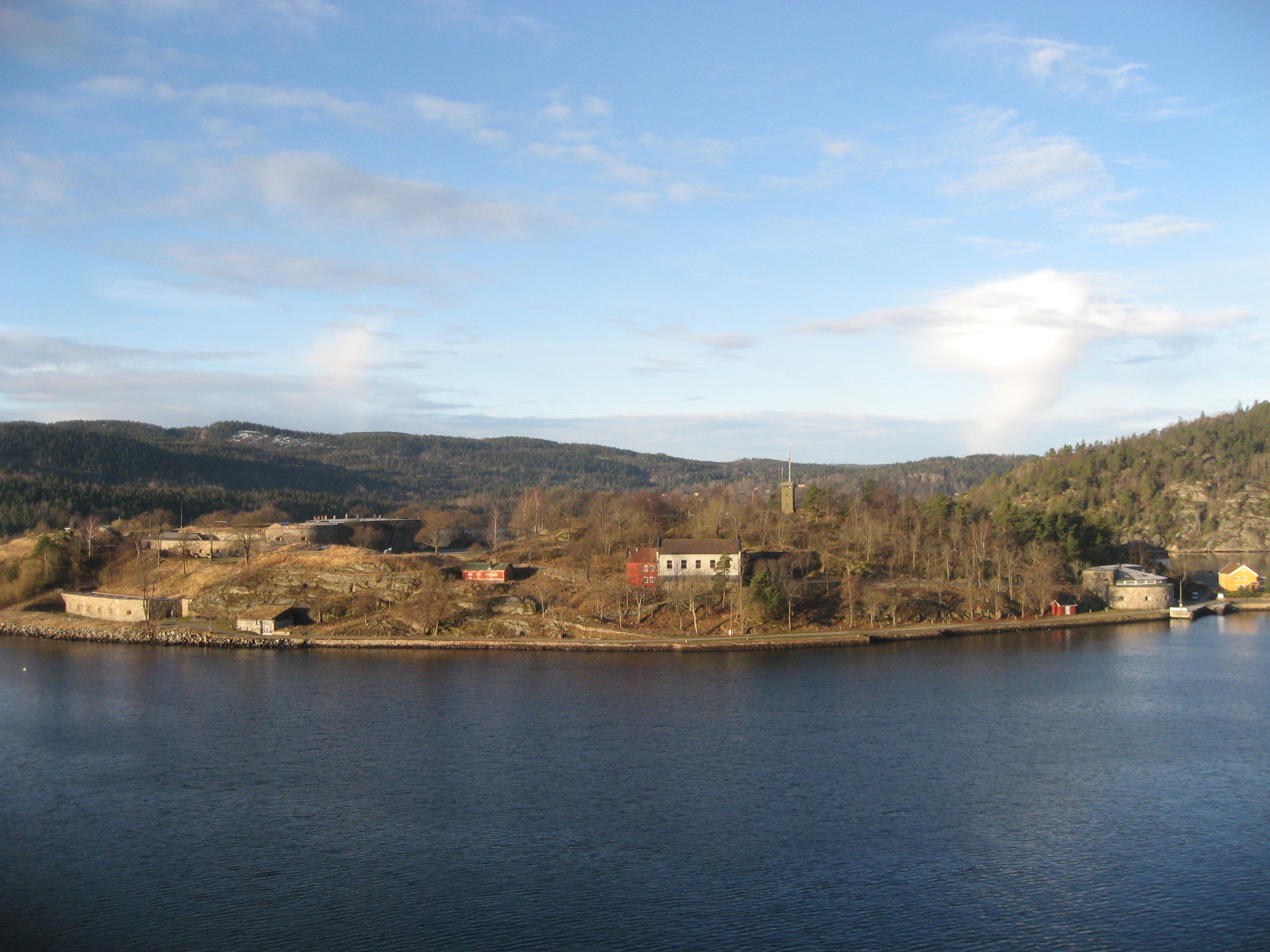 Oscarsborg Fortress